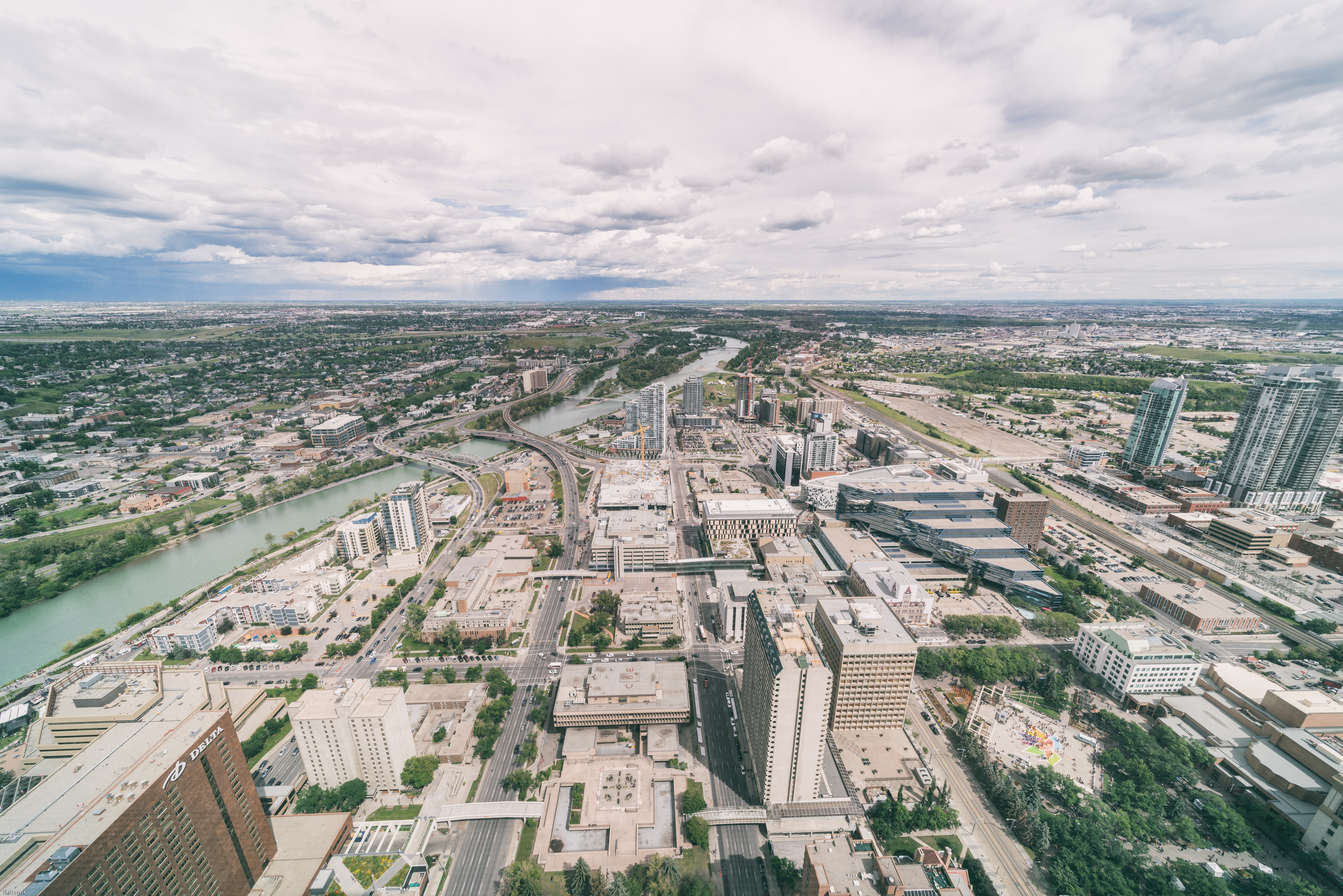 The Bow is a 158,000-square-metre (1,700,000 sq ft) office building for the headquarters of Encana Corporation and Cenovus Energy, in downtown Calgary, Alberta. The 236 metre (774 ft) building is currently the second tallest office tower in Calgary, since construction of Brookfield Place; and the third tallest in Canada outside Toronto. The Bow is also considered the start of redevelopment in Calgary's Downtown East Village. It was completed in 2012 and was ranked among the top 10 architectural projects in the world of that year according to Azure magazine